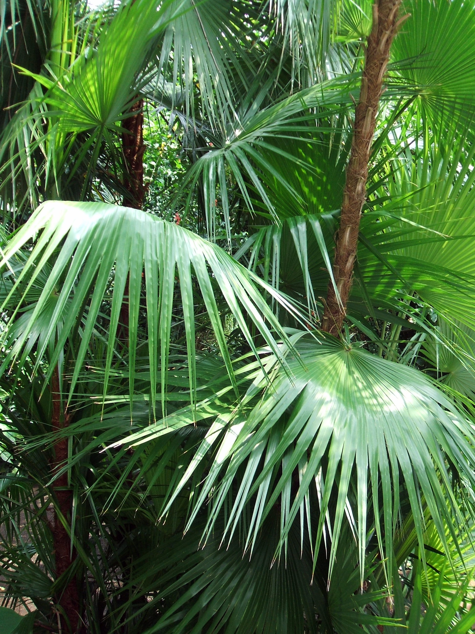 Acoelorraphe wrightii, at the Missouri Botanical Garden